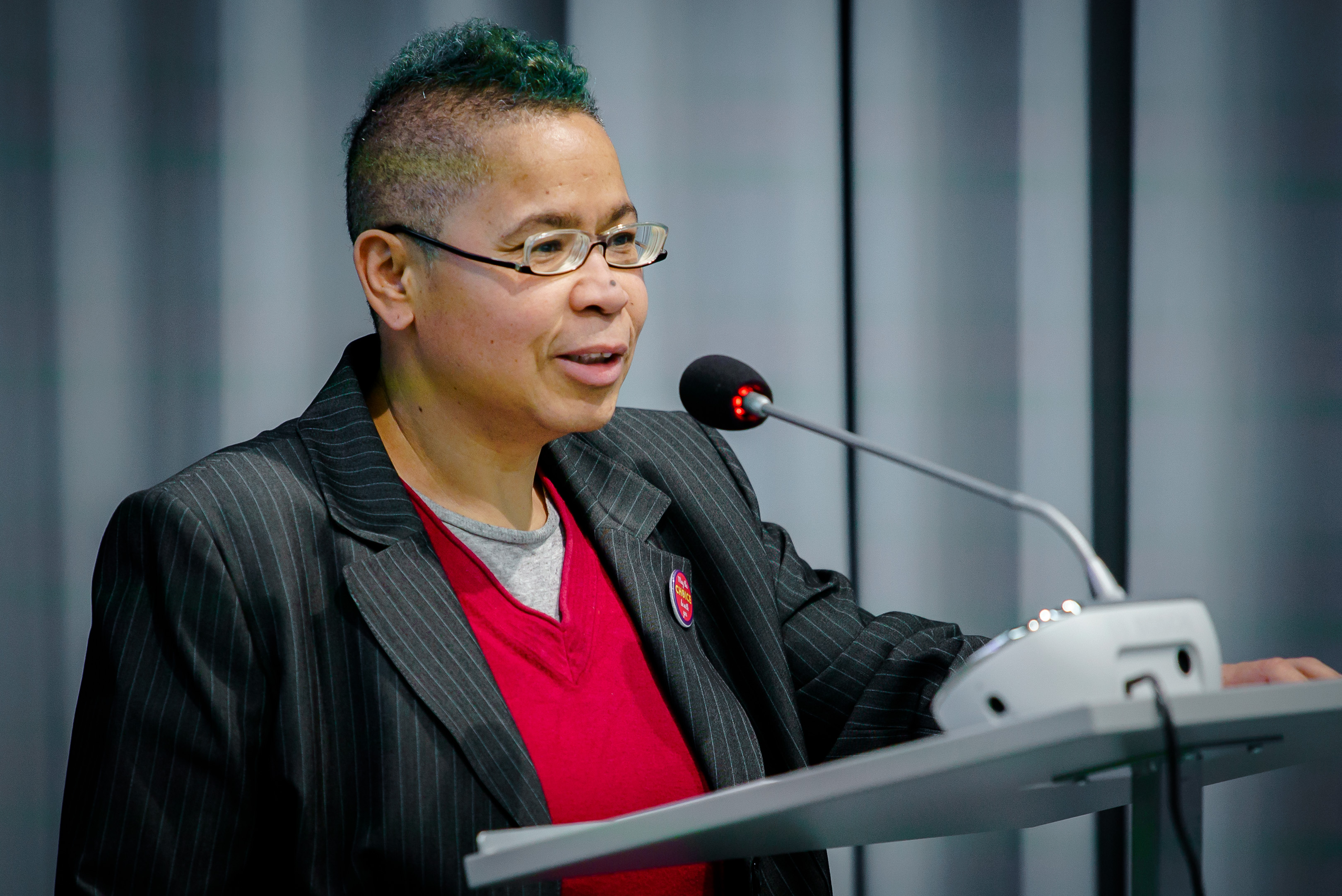 Peggy Piesche (Gunda Werner Institut), Photo: Bodo Gierga